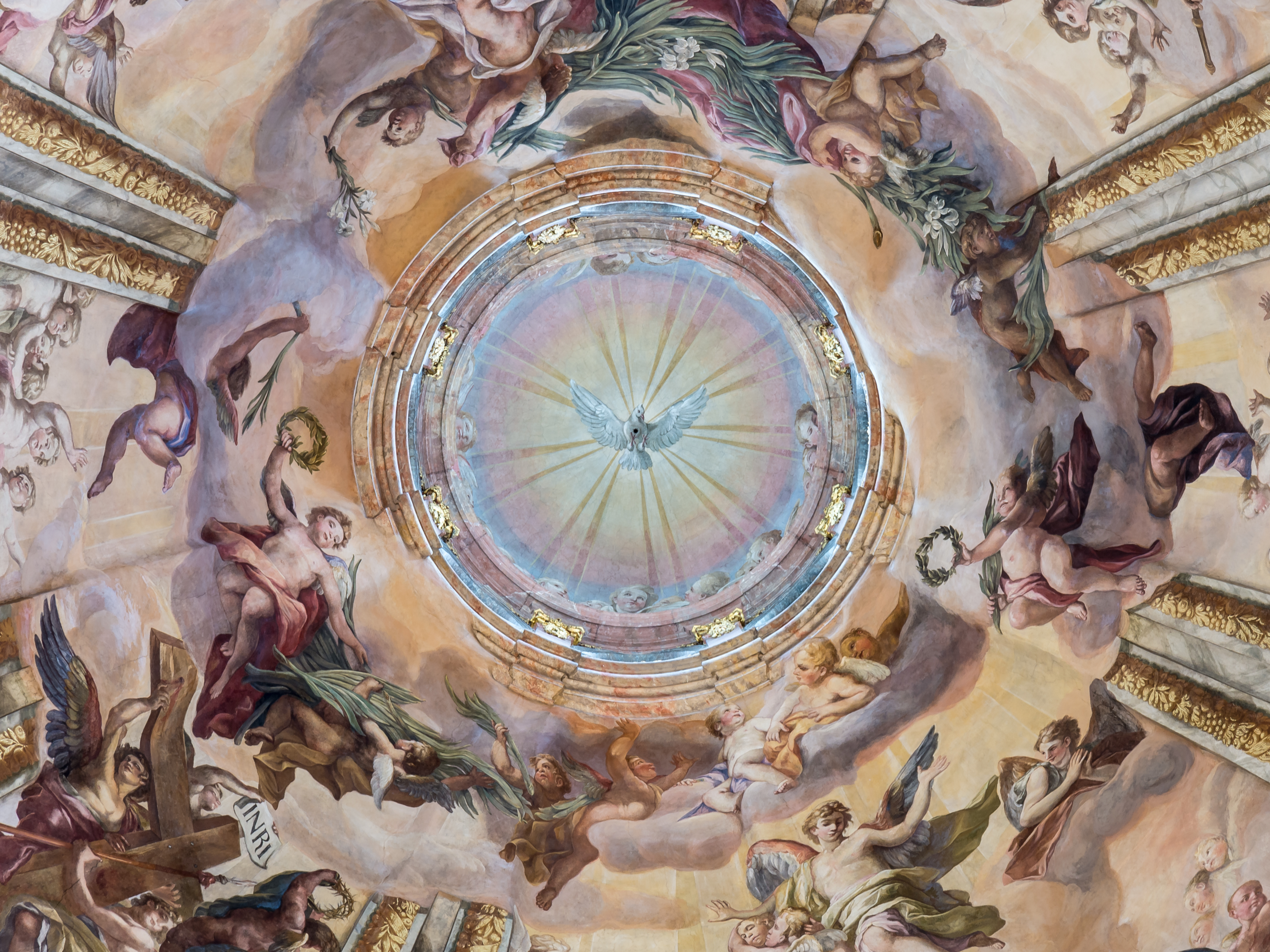 Dome fresco of Melk Abbey Church by Johann Michael Rottmayr (1716/17): The New Jerusalem